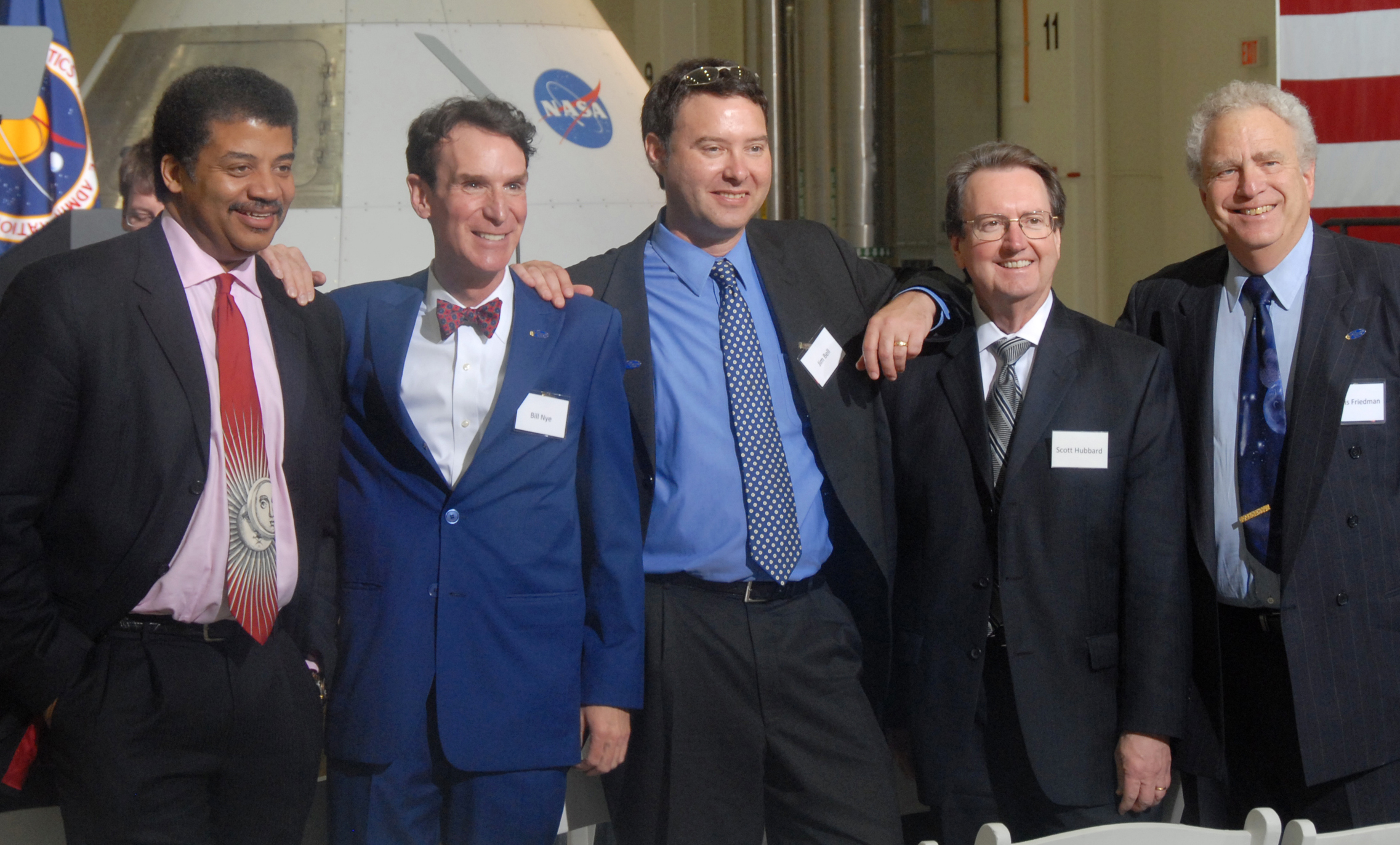 In the Operations and Checkout Building at NASA's Kennedy Space Center in Florida, some of the participants and invited guests of the Conference on the American Space Program for the 21st Century pose for a group portrait. From left are Neil deGrasse Tyson, Bill Nye, Jim Bell, Scott Hubbard, and Louis Friedman. President Barack Obama opened the conference with remarks on the new course his administration is charting for NASA and the future of U.S. leadership in human spaceflight.